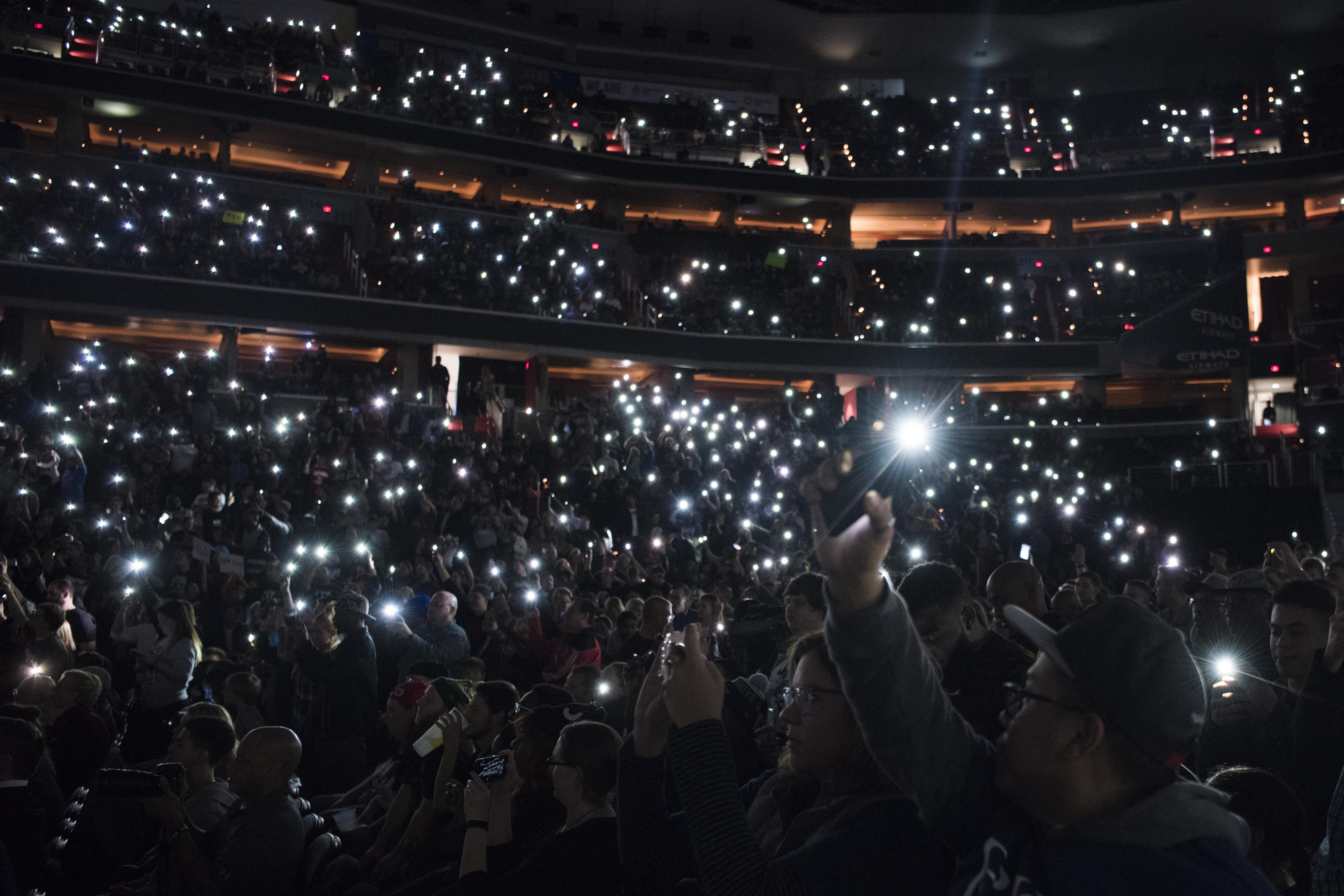 Service members cheer during the 14th Annual Tribute to the Troops Event at the Verizon Center in Washington, D.C., Dec. 13, 2016. WWE Tribute to the Troops is an annual event held by WWE and Armed Forces Entertainment in December during the holiday season since 2003, to honor and entertain United States Armed Forces members. WWE performers and employees travel to military camps, bases and hospitals, including the Walter Reed Army Medical Center and Bethesda Naval Hospital. DoD Photo by Navy Petty Officer 2nd Class Dominique A. Pineiro